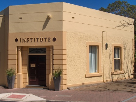 Front entrance of the hall at the Clarence Park Community Centre, located on East Avenue, Black Forest (South Australia)